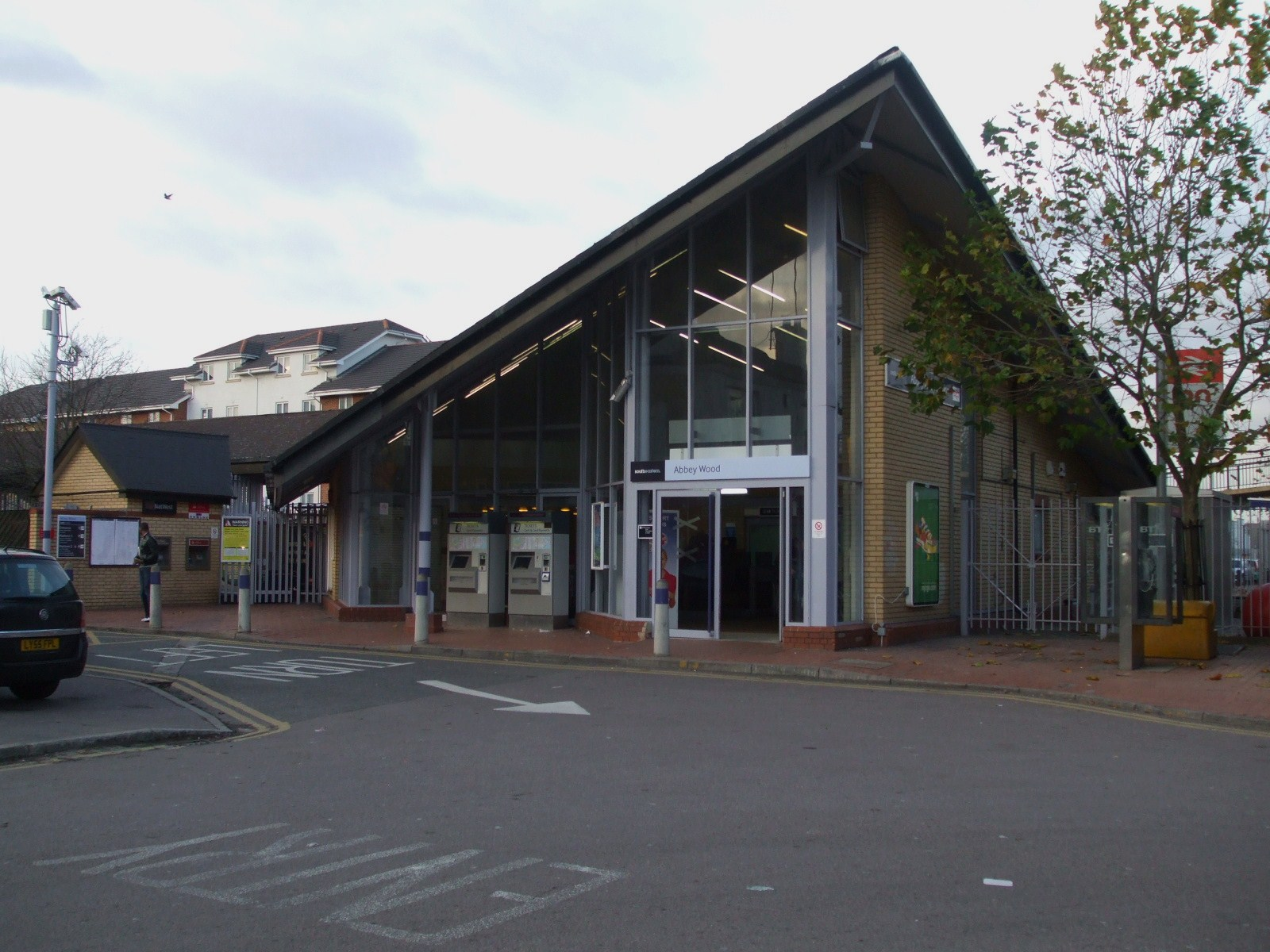 Abbey Wood station building